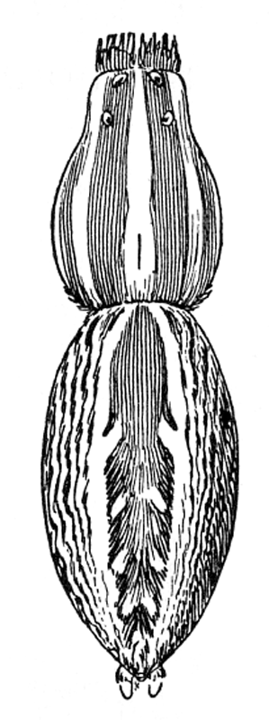 Lycosa scutulata.—Female enlarged twice.